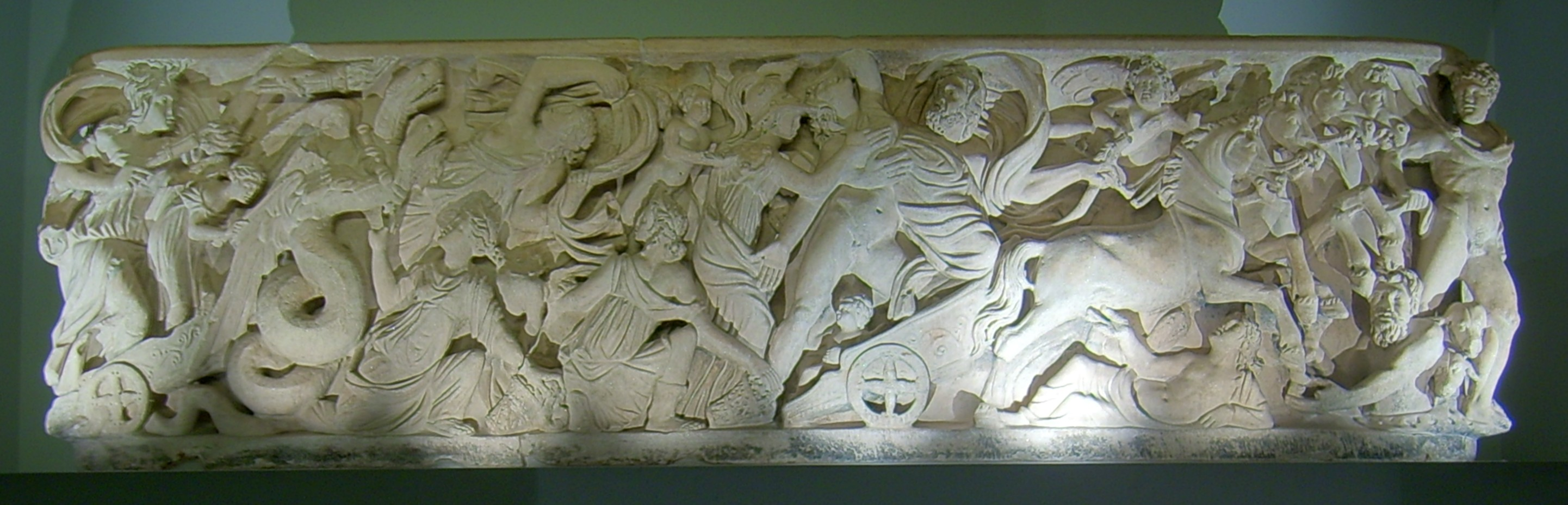 Persephone sarcophagus of Charlemagne made of Parian marble, Aachen Cathedral